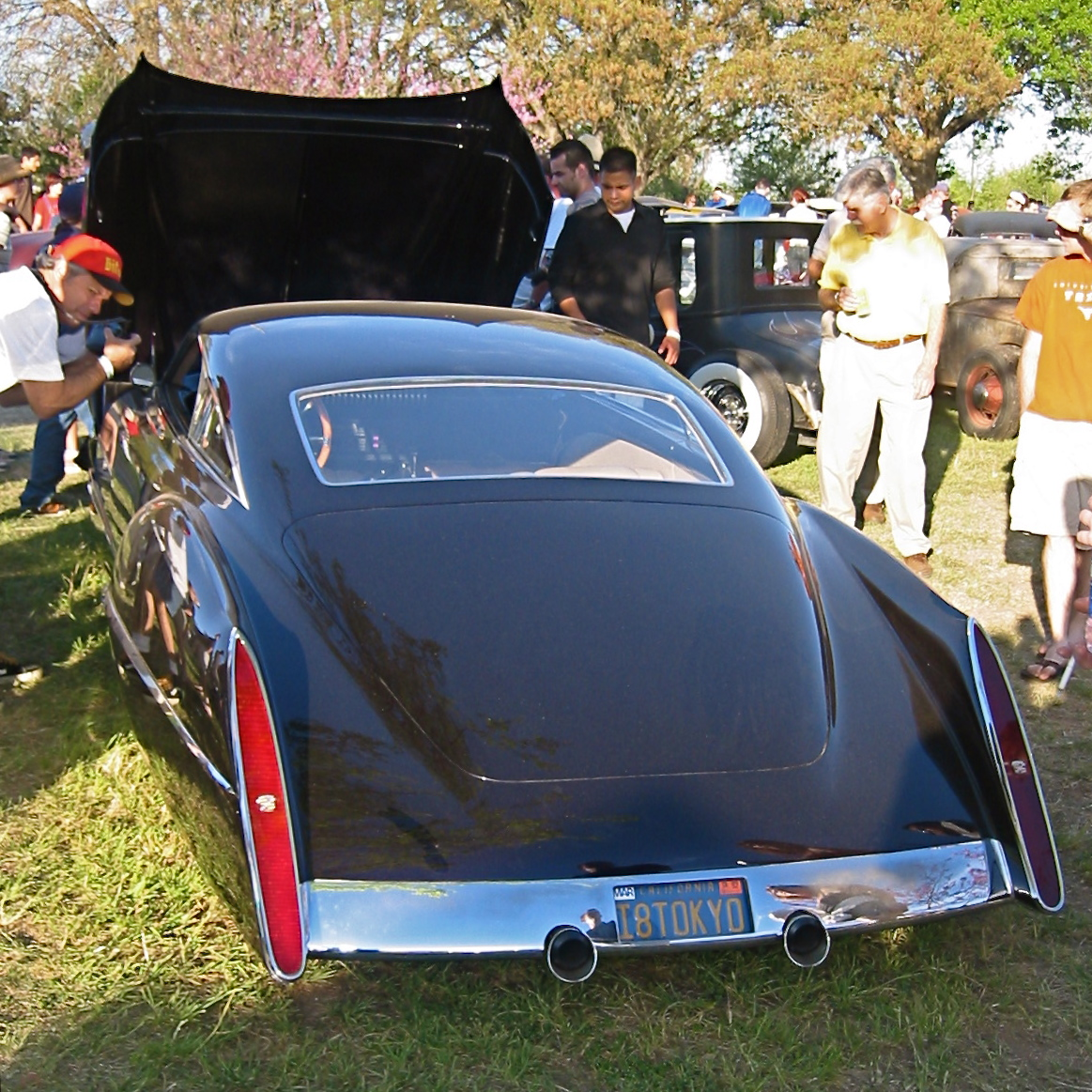 This is the legendary "CadZZilla", commissioned by ZZ Top's Billy Gibbons, designed by Larry Erickson and built by Boyd Coddington. It was on display (and was street-driven to) the April 2005 Longhorn Hot Rod show in Austin, TX at Auditorium Shores. This photo was taken by the (uploader) and is licensed as CC-BY-SA 3.0. Mrflip (talk) 00:29, 13 December 2008 (UTC)